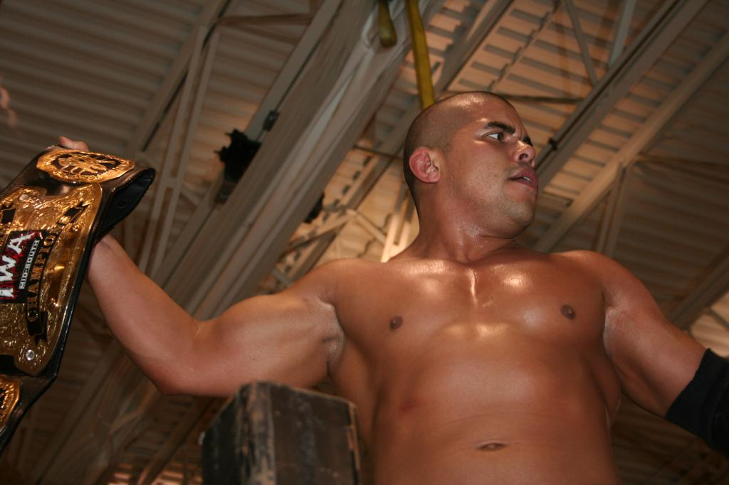 Ricky Reyes at IWA-MS 500th show